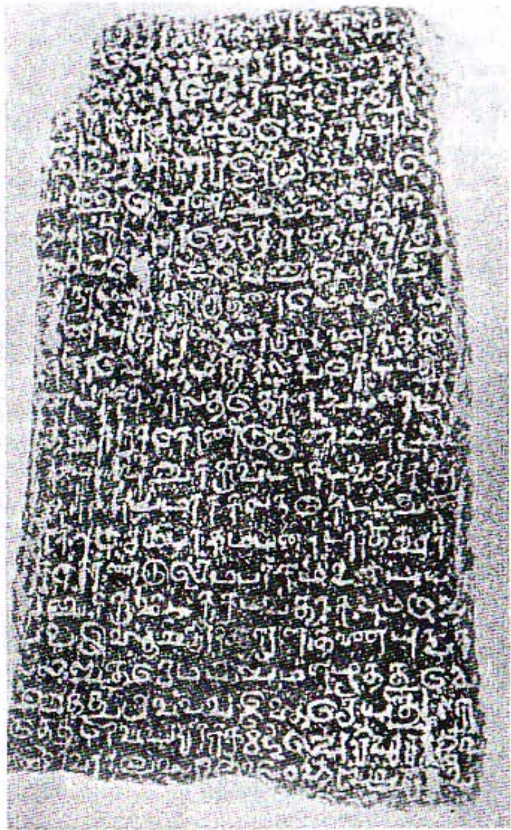 Parakramabahu I Nainativu Tamil inscription